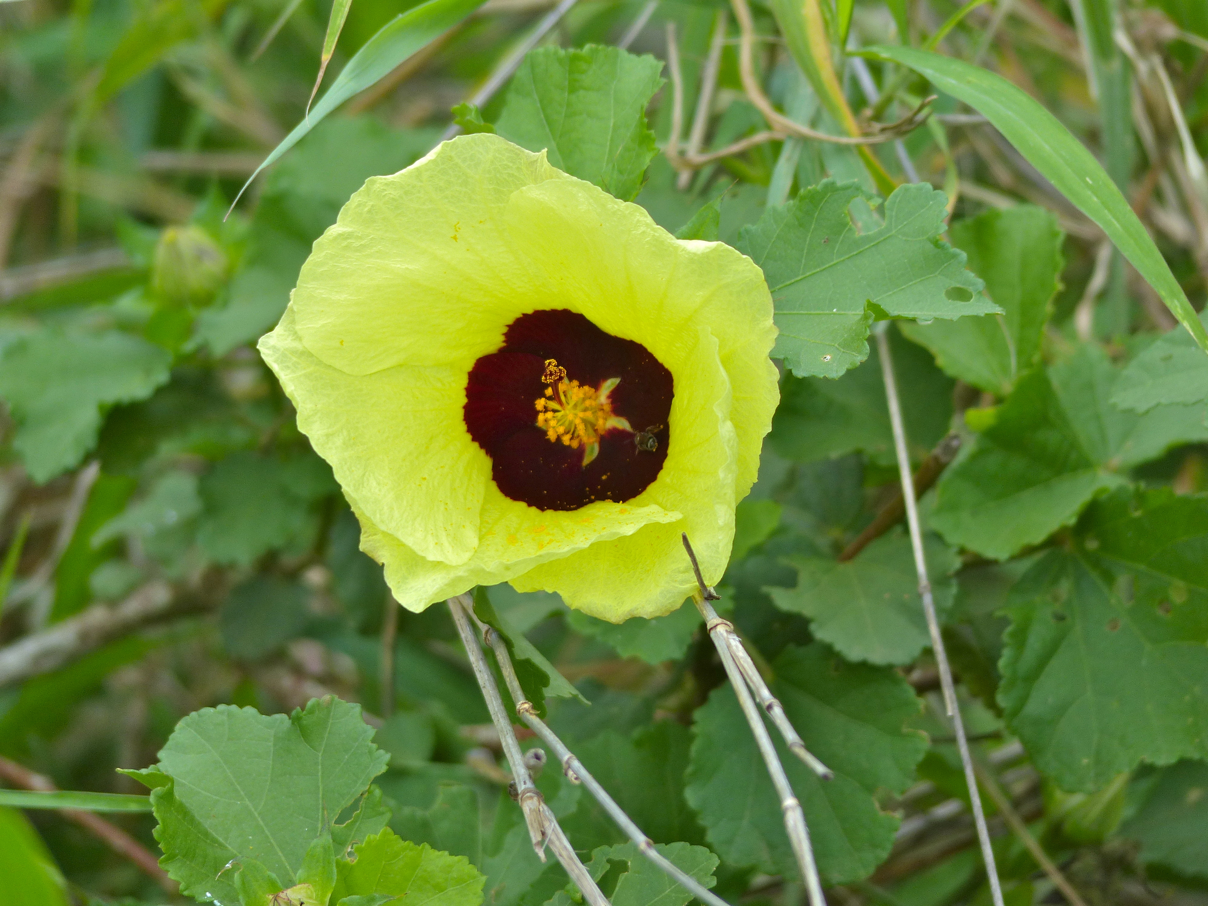 H1-3 Road North of Tshokwane, Kruger NP, SOUTH AFRICA